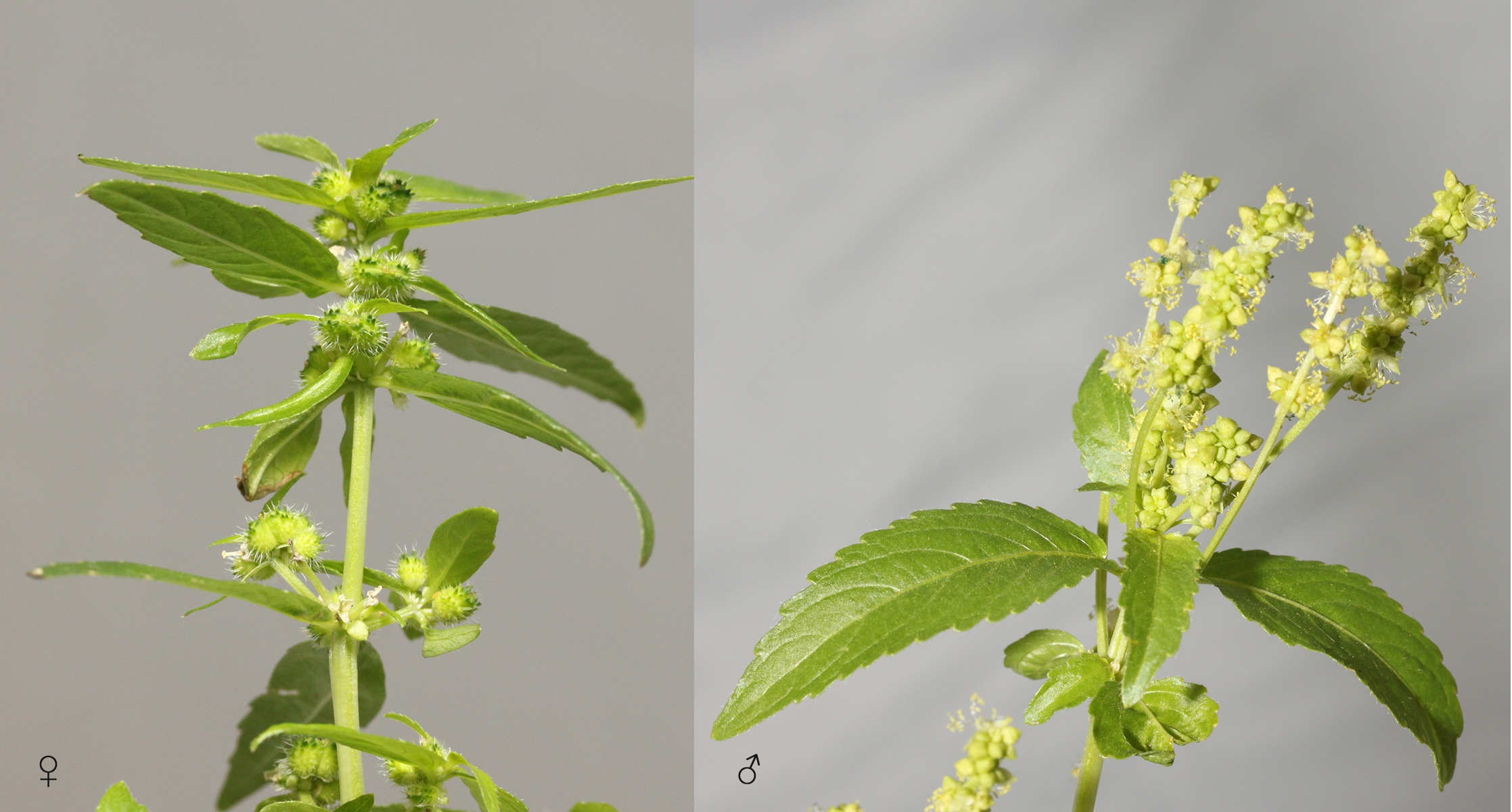 Mercurialis annua L., female (left) and male (right) plant